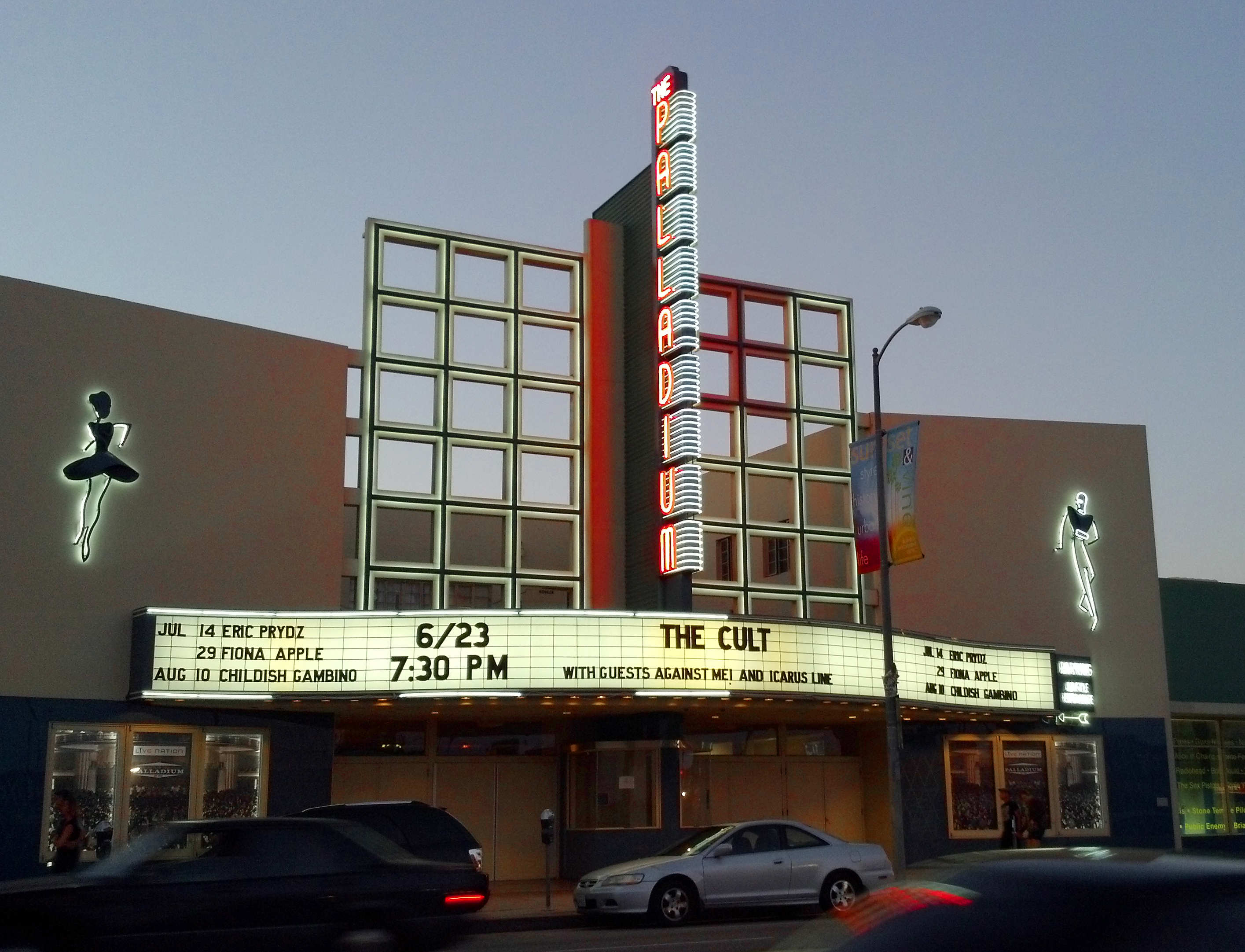 The Hollywood Palladium on Sunset Strip, showing the 2008-era renovations. The image was taken before The Cult show on June 23, 2012.